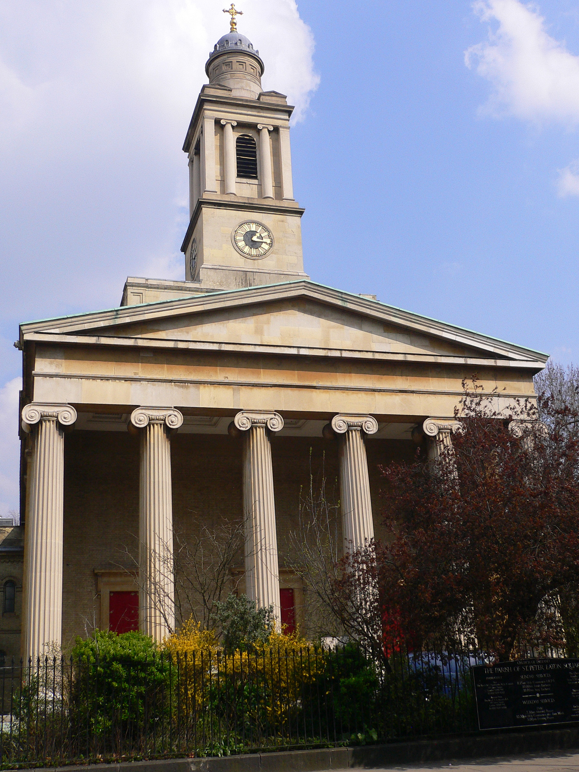 St Peter's parish church, Eaton Square, London SW1, seen from the southwest